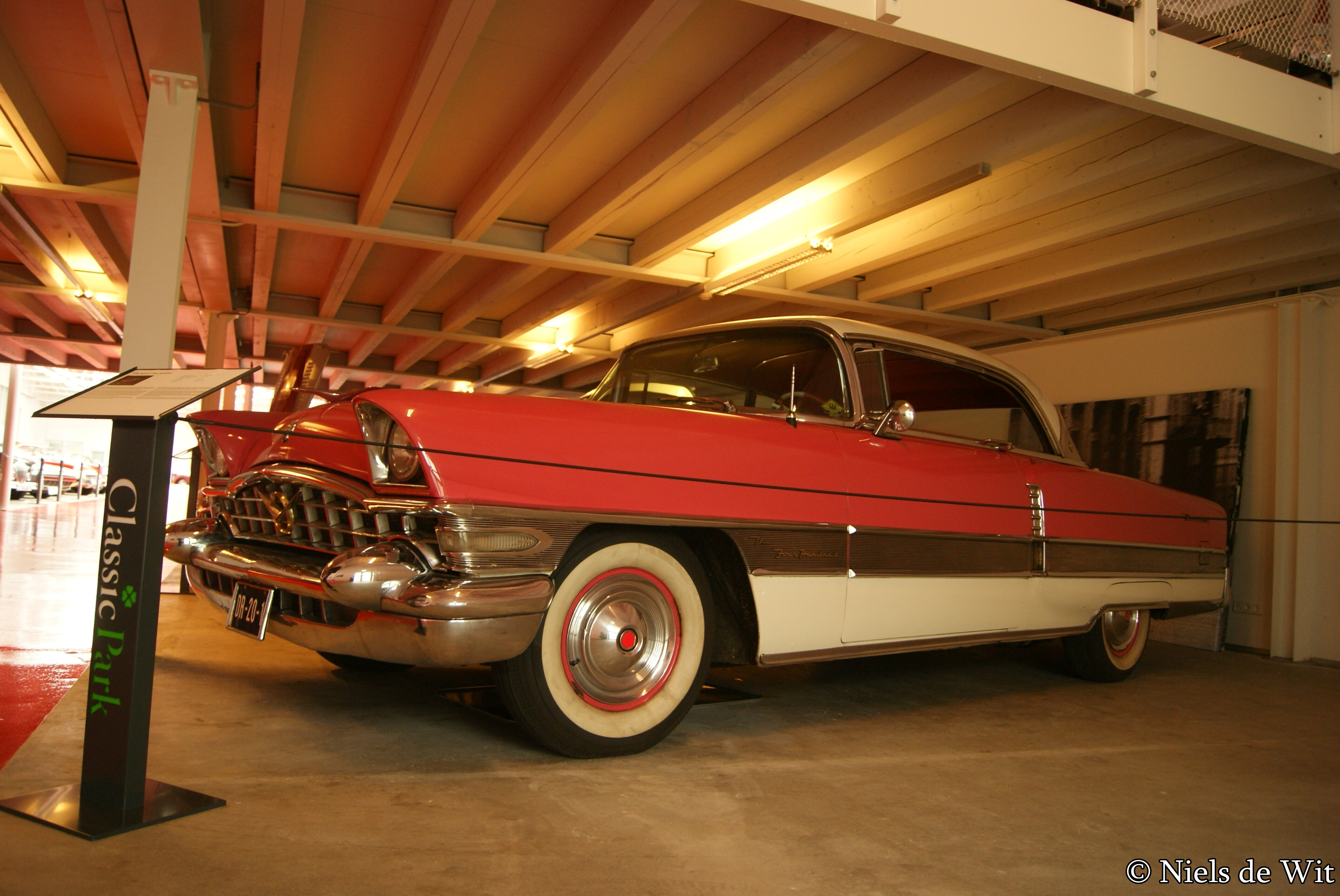 DR-20-11 Classic Park Boxtel